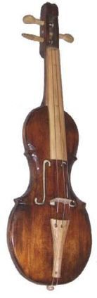 The old Polish musical instrument mazanki (mazanka)